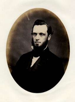 James Monroe, congressman from Ohio.